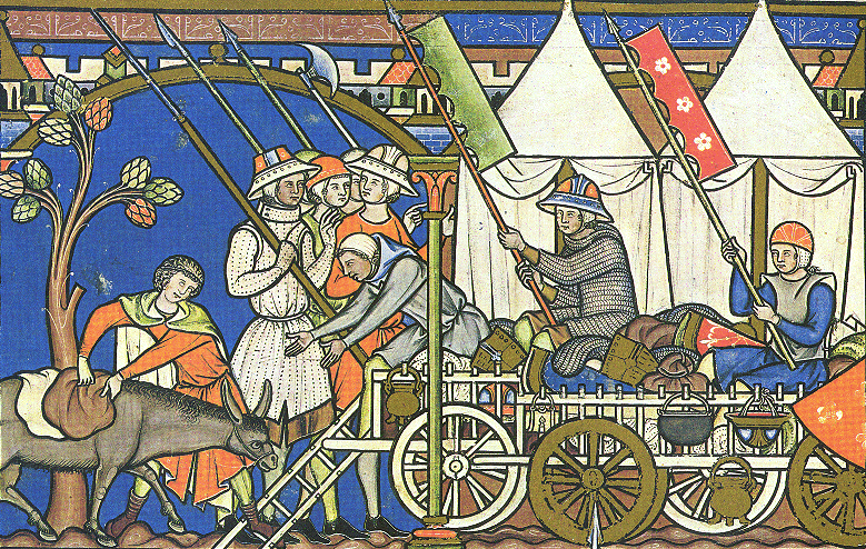 David delivers the provisions.